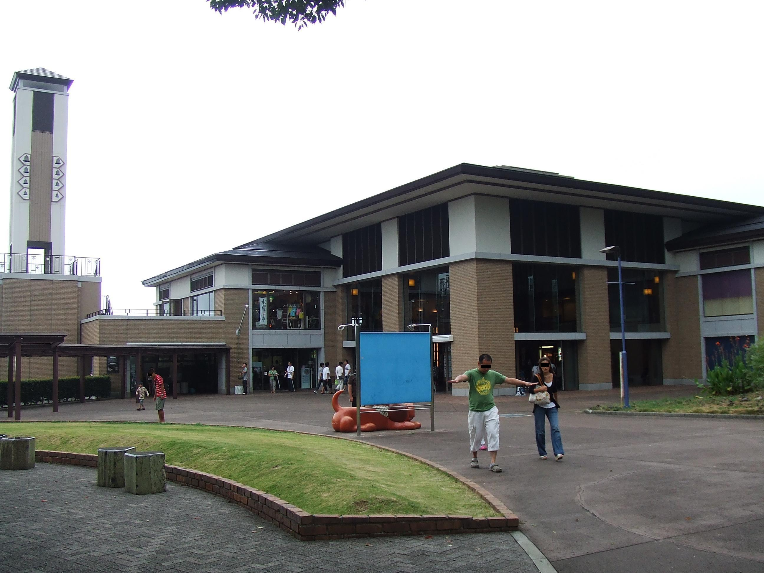 Izu-Kogen Station